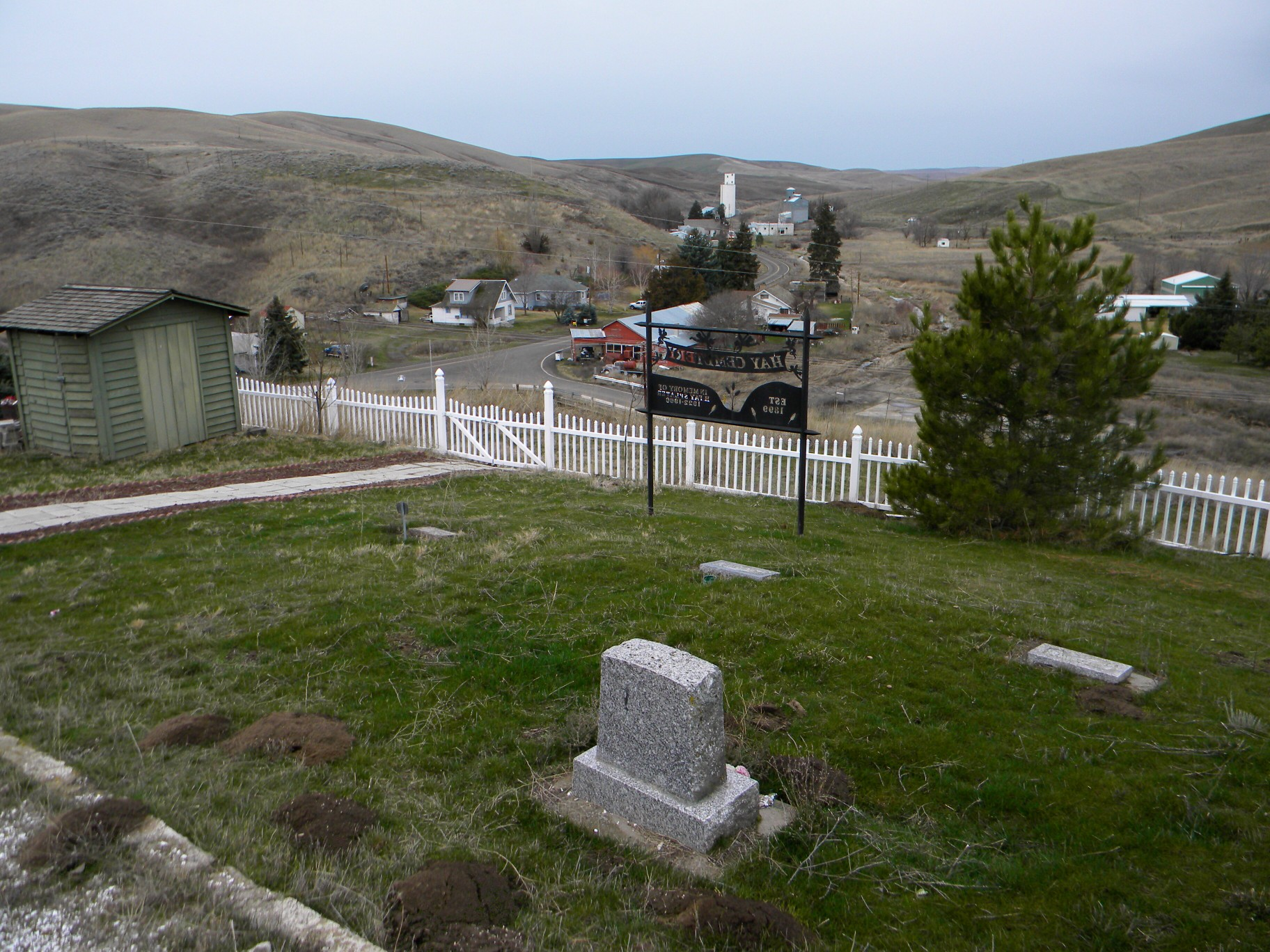 Hay, Washington